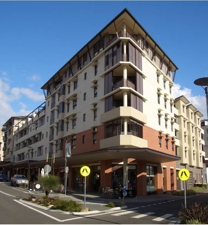 High-rise in Kogarah, Sydney, Australia.